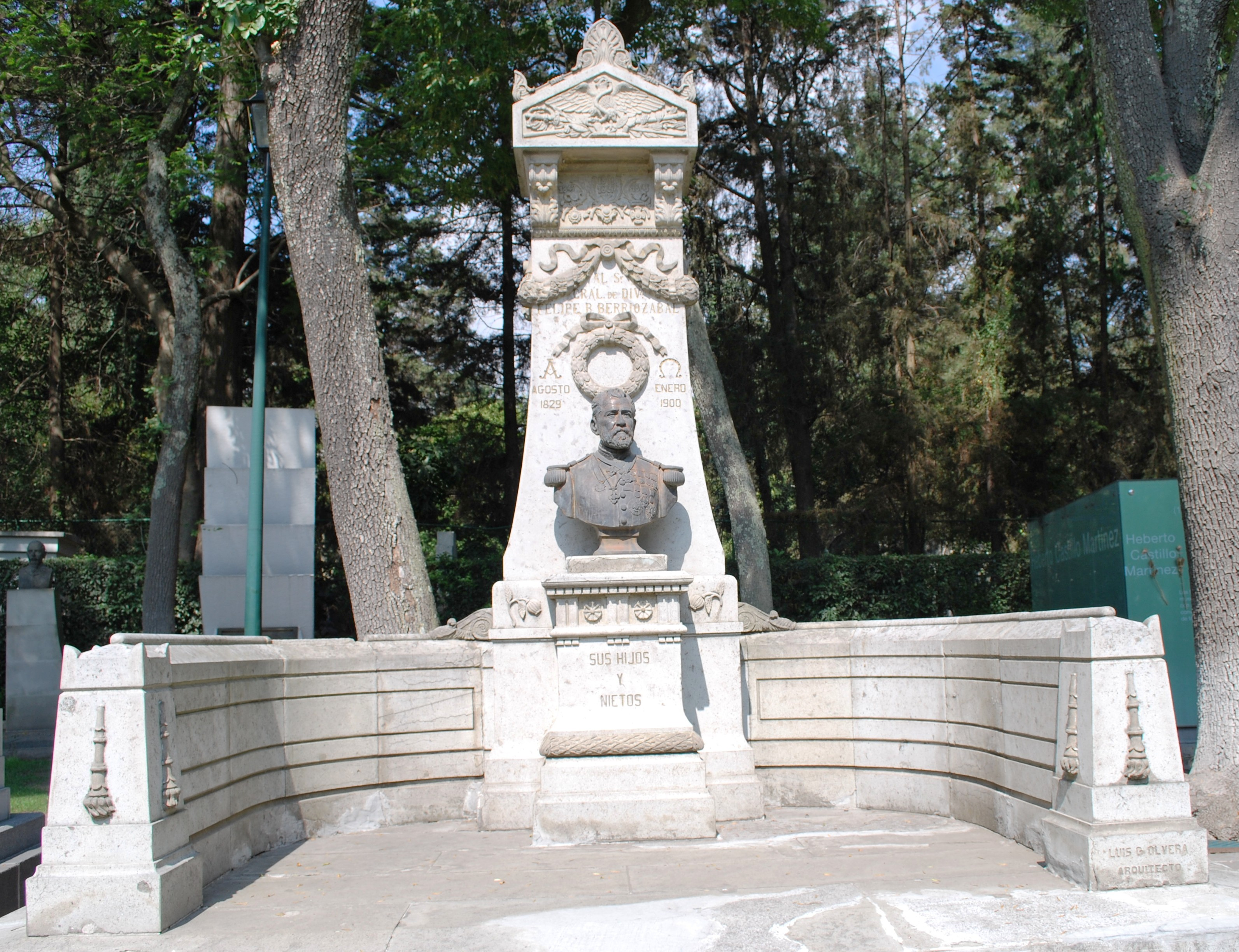 Tomb of General Felipe Berriozbal in the Panteon Civil de Dolores cemetery in Mexico City